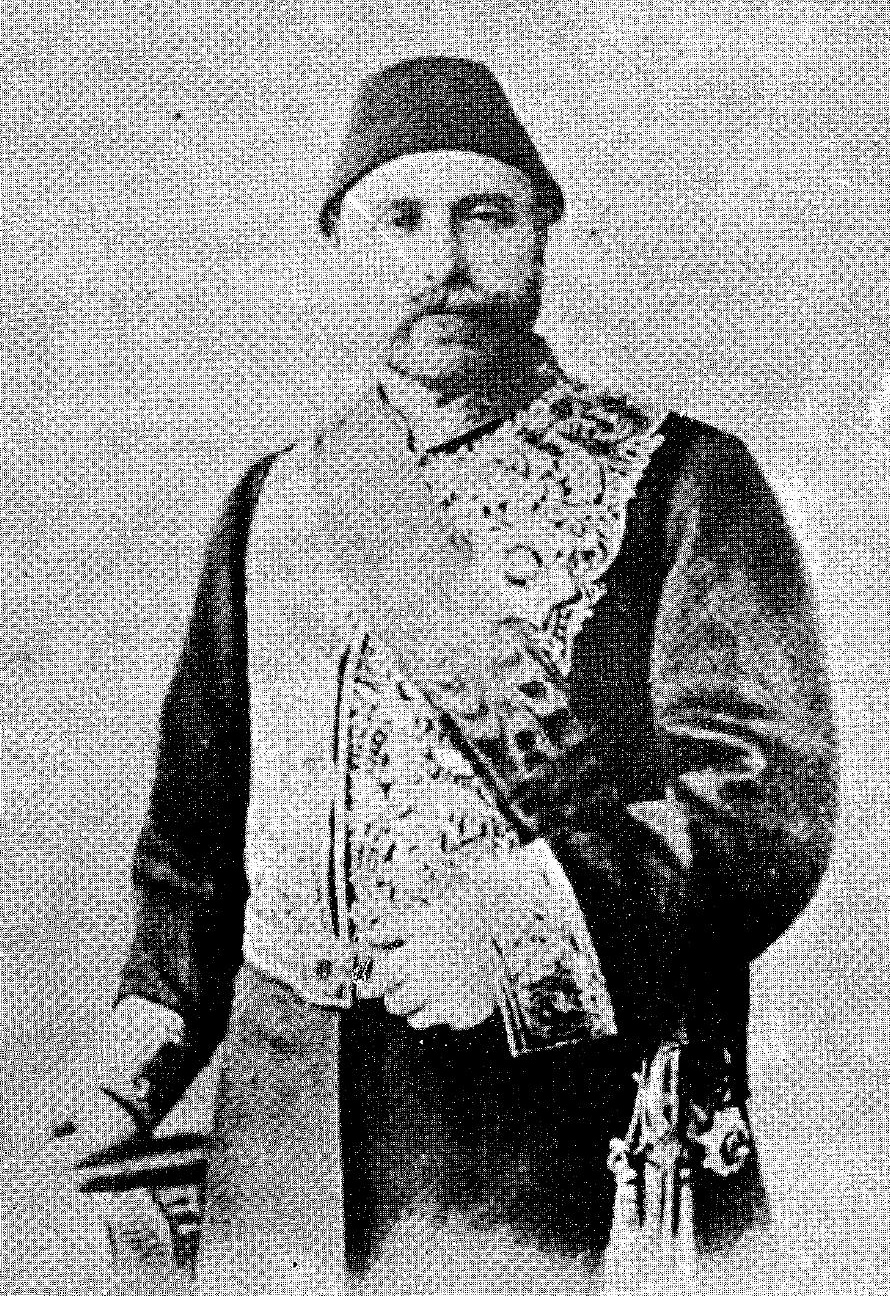 Cenanizade Mehmed Kadri Pasha (1832-1884) Ottoman Grand Vizier during the reign of Abdulhamid II.